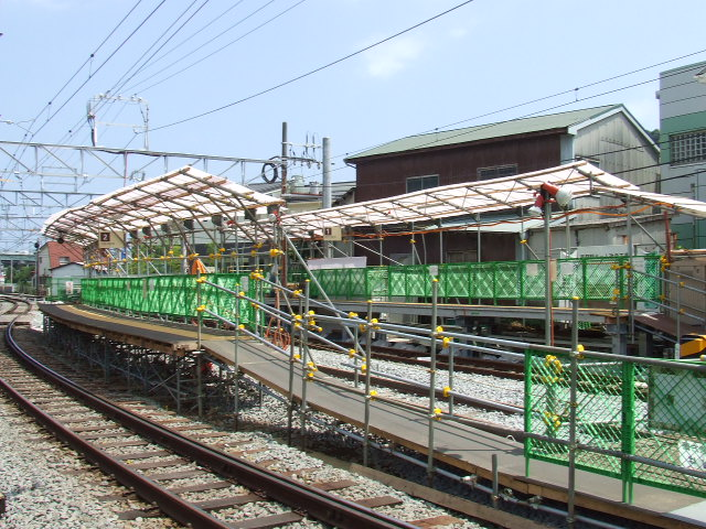 Platform of Kazamatsuri station, Hakone Tozan Railwey, Kanagawa, Japan .